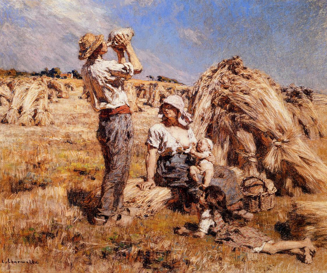 Motherhood